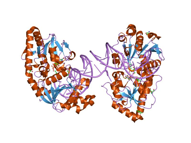 Cartoon representation of the molecular structure of protein registered with 1m5r code.